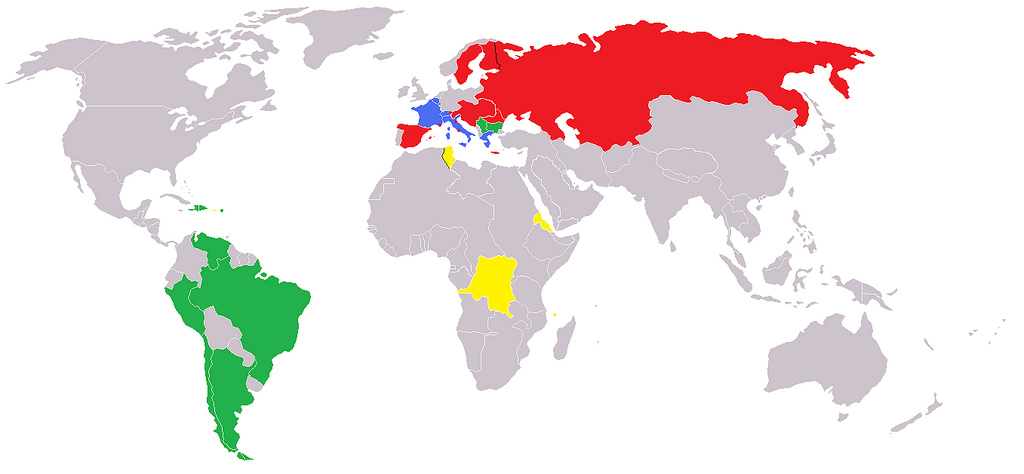 Map of the Latin Monetary Union as of 1914